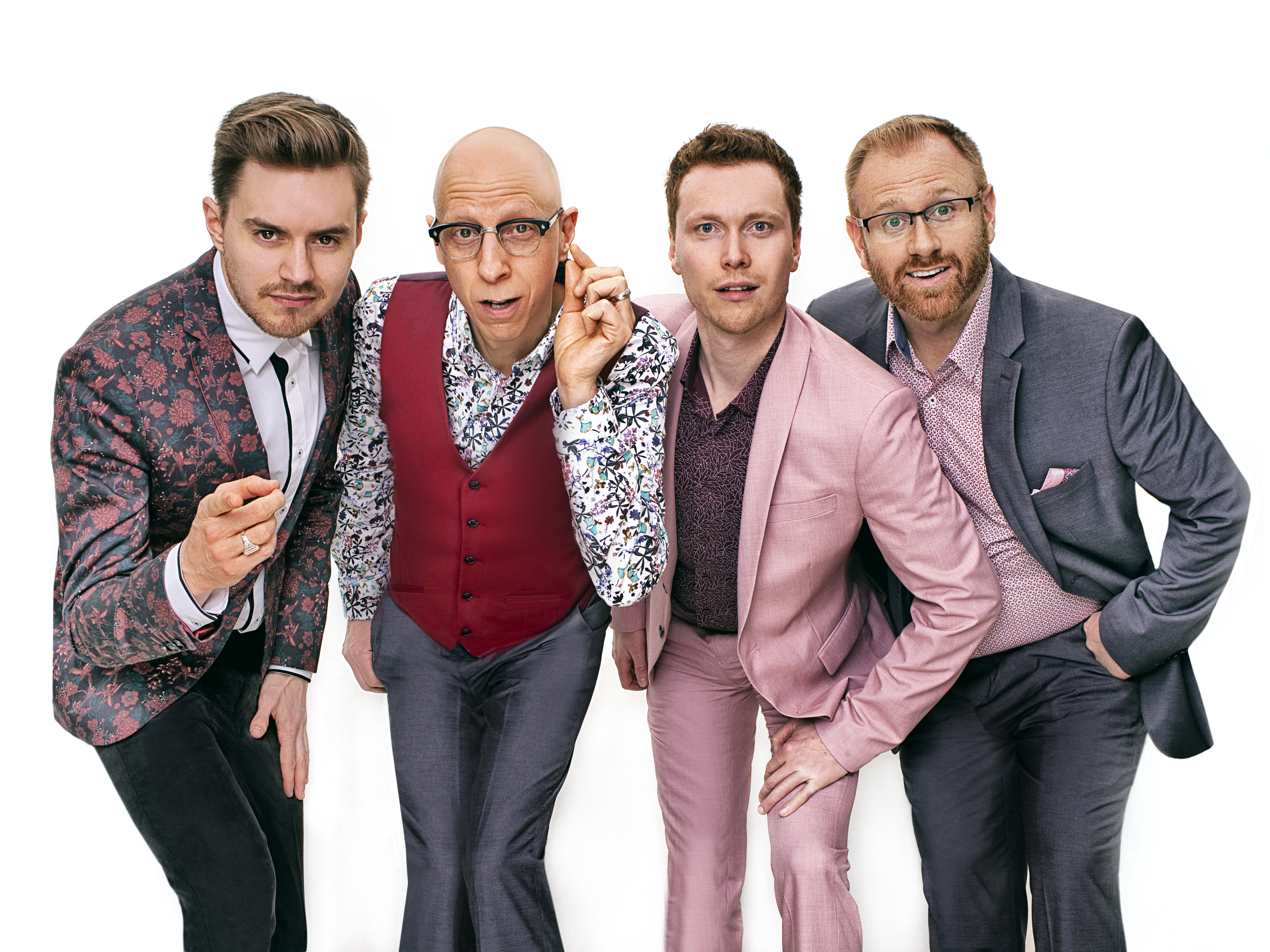 CADENCE